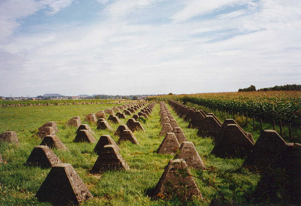 Tank obstacle of the Siegfried Line nearby Aachen in Germany.